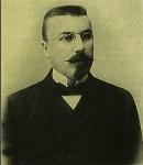 Photograph of Dimitrios Sarros (1870-1937), Greek scholar and teacher.